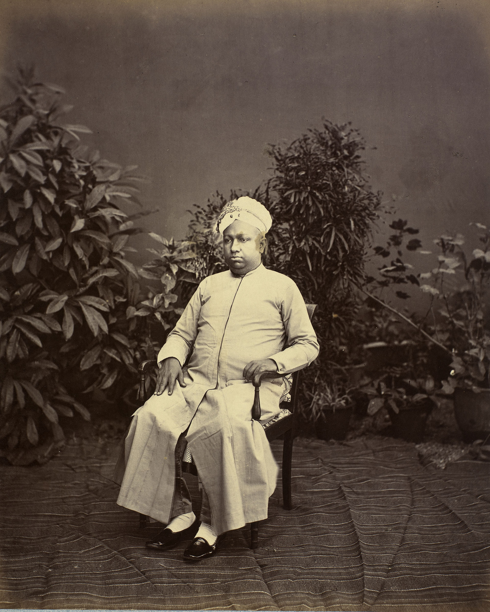 Photograph of the Maharaja of Travancore, seated in an armchair, facing half to the left, with left hand on arm of chair. He wears a long tunic with high neck, long sleeves and a spotted lining; a turban with jewelled ornament. Plants in pots behind.